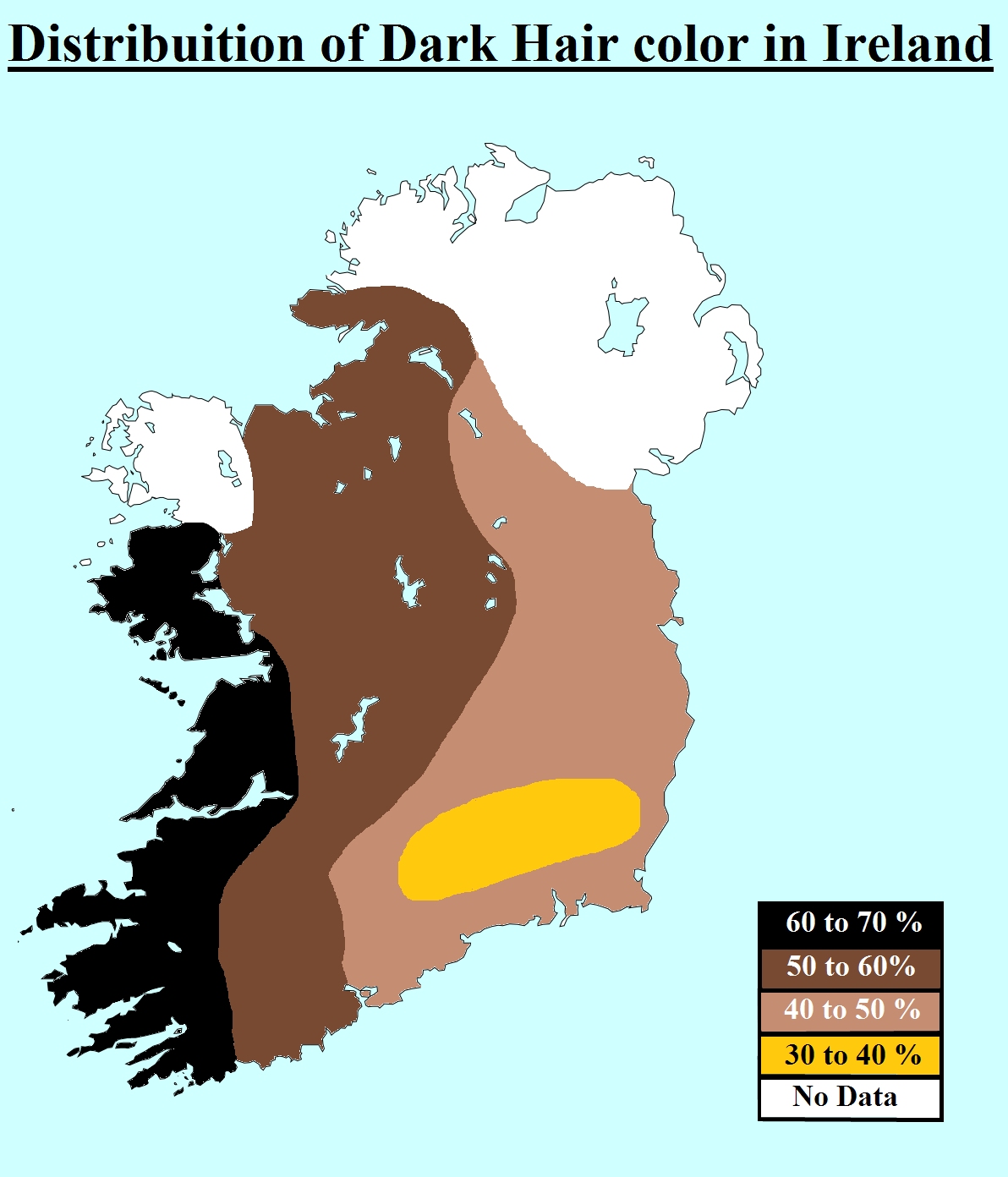 Distribution of Dark hair color (Dark brown , Black ) in Ireland [1]